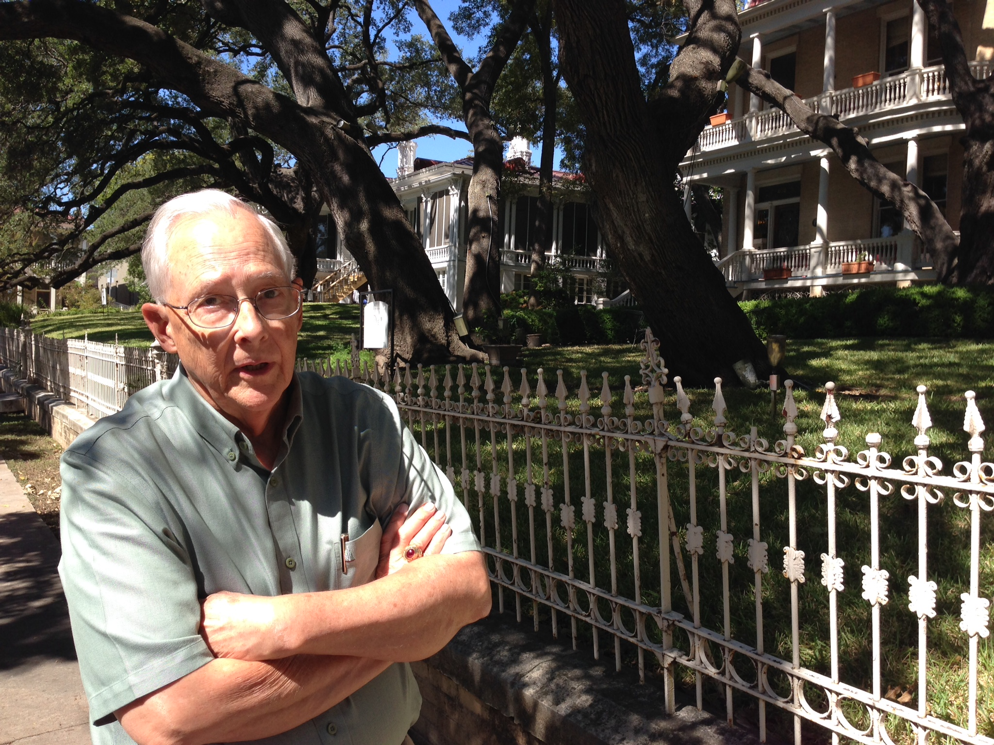 David B. Gracy II, Governor Bill Daniel Professor Emeritus in Archival Enterprise, Austin, Texas, Governor Bill Daniel Professor in Archival Enterprise, Austin, Texas (1986-2011), Director of the Texas State Archives (1977-1986), Archivist of the Southern Labor Archives and University Archives at Georgia State University (1971-1977), Archivist for the Southwest Collection at Texas Tech University (1966-1971). Private tour of historic district in Austin, Texas, October 15, 2015.